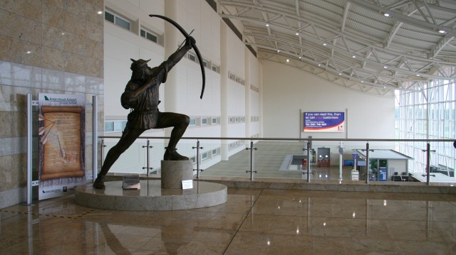 Robin Hood Airport (7 of 7) 449952 Previous - - First 449828 ROBIN HOOD This sculpture is on the upper level of the passenger side of the terminal building. For an explanation of the airport name, see this link (once loaded, search the page for the text "Hunting out the remains of Robin Hood").